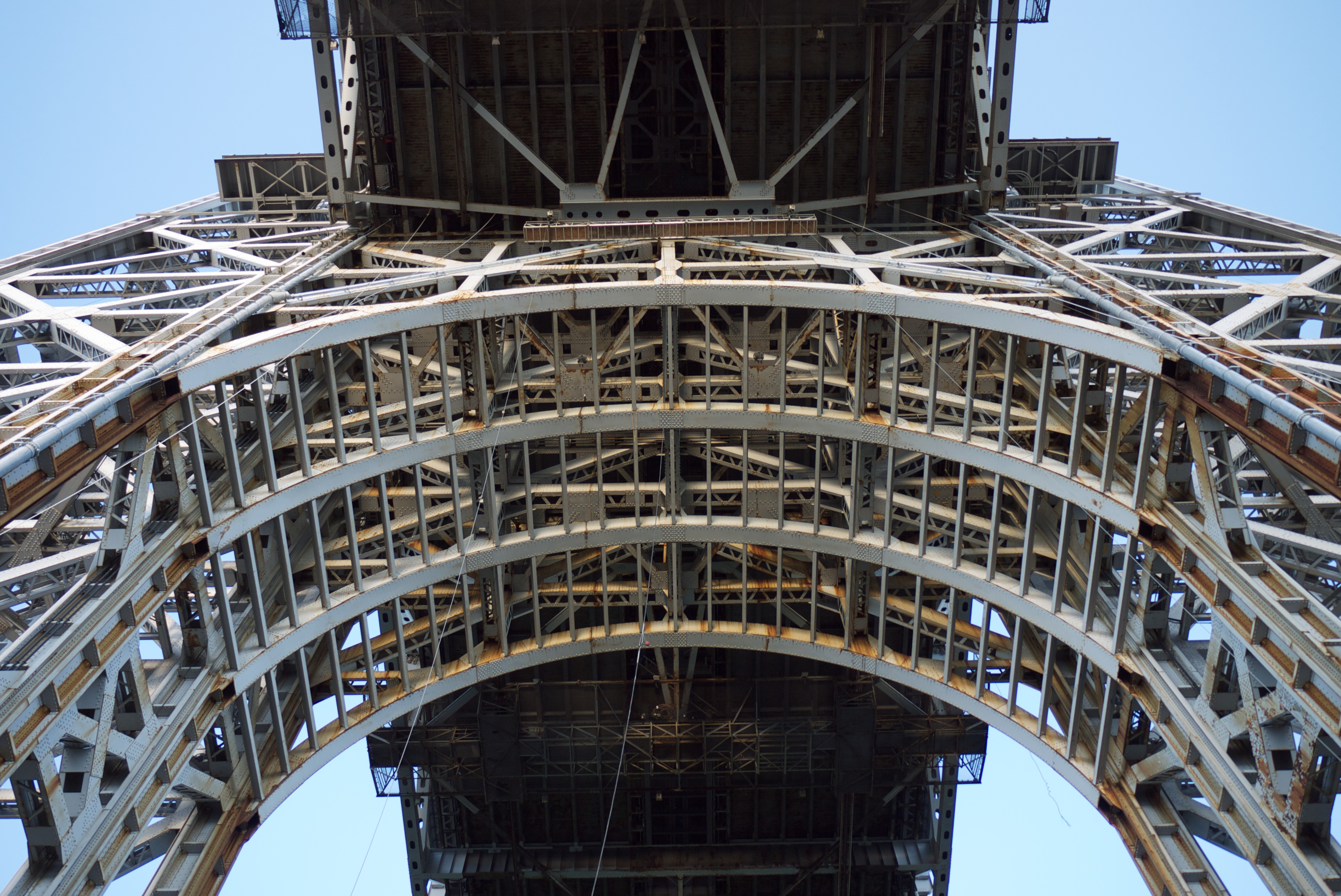 Under George Washington Bridge's Manhattan-side pillar